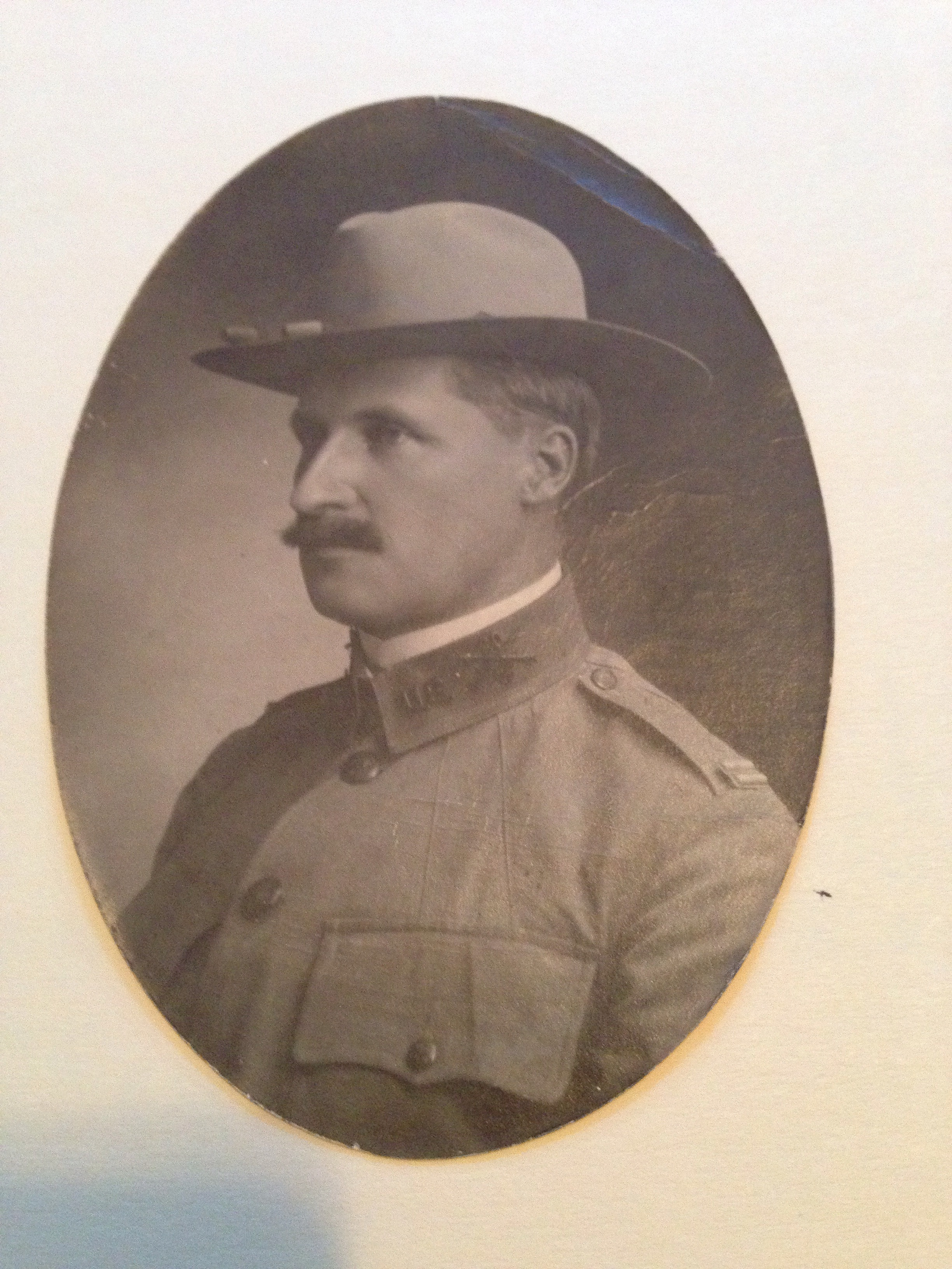 Captain Edward Mann Lewis